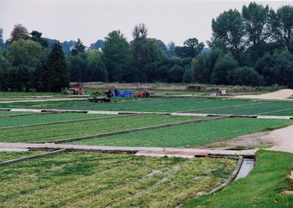 Commercial watercress production at Alresford in Hampshire. Suzanne MacLeod 2005